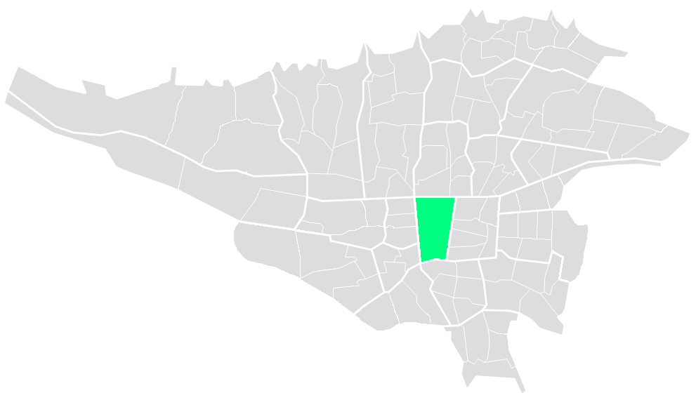 Region 11 of Tehran